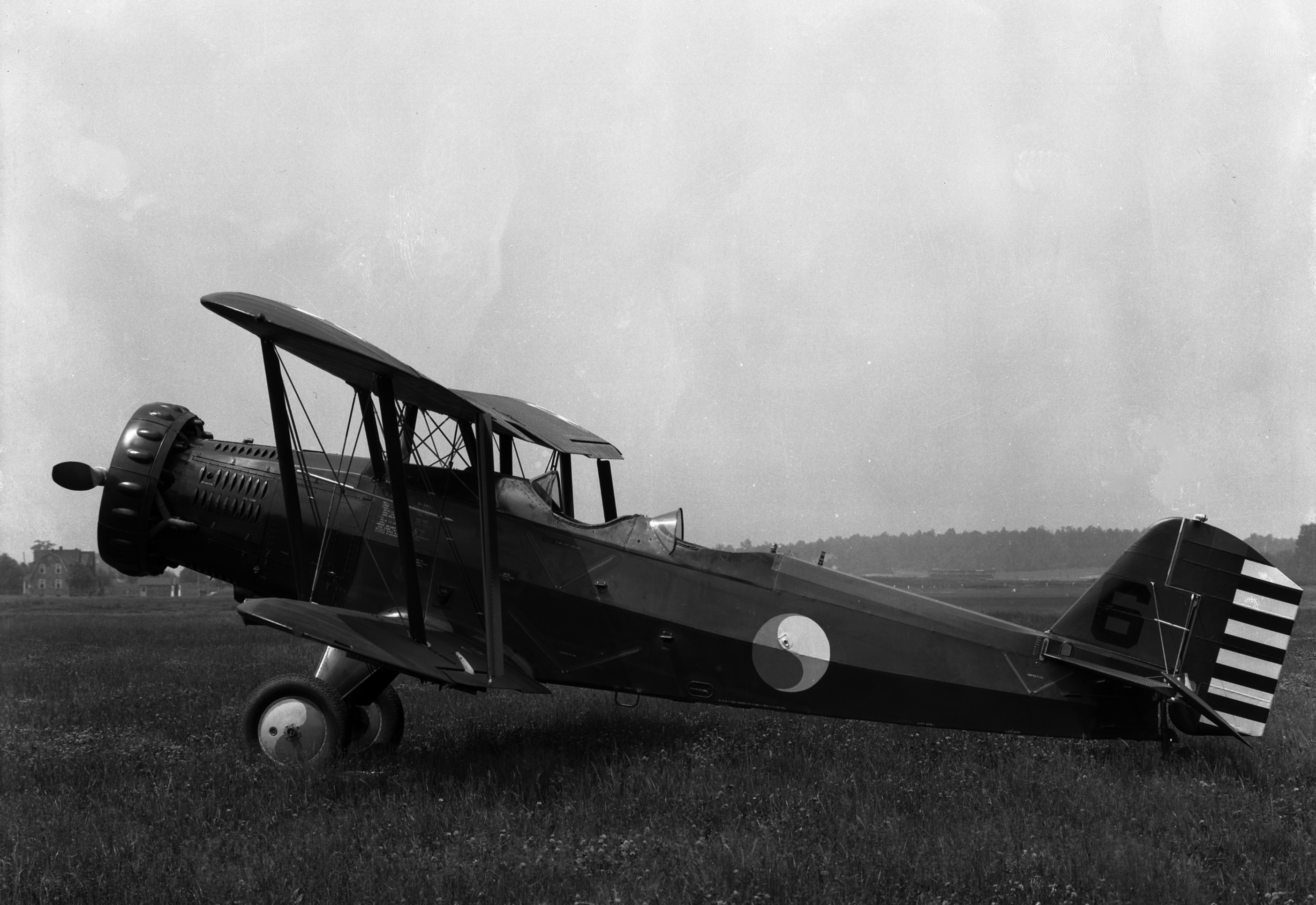 An Douglas O-38B assigned to the Maryland National Guard's 104th Observation Squadron parked on the flightline on 9 May 1934. The Maryland National Guard was equipped with O-38Bs from February 1932 to March 1937.